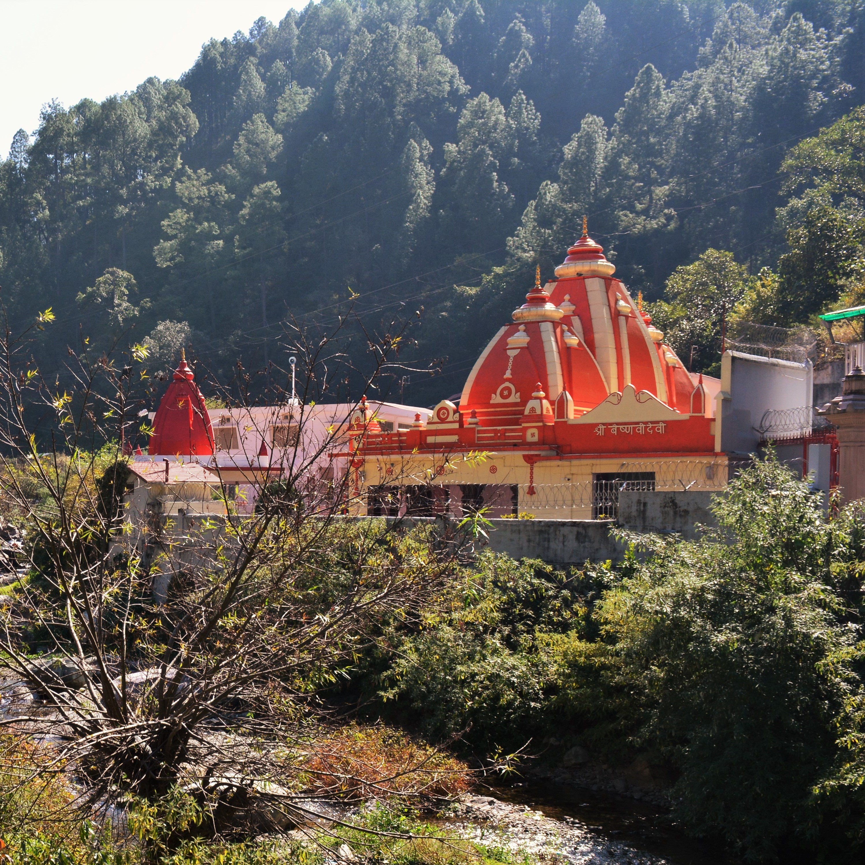 Kainchi Dham temple of Neem Karoli Baba.